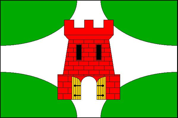 Municipal flag of Braňany village, Most District, Czech Republic.